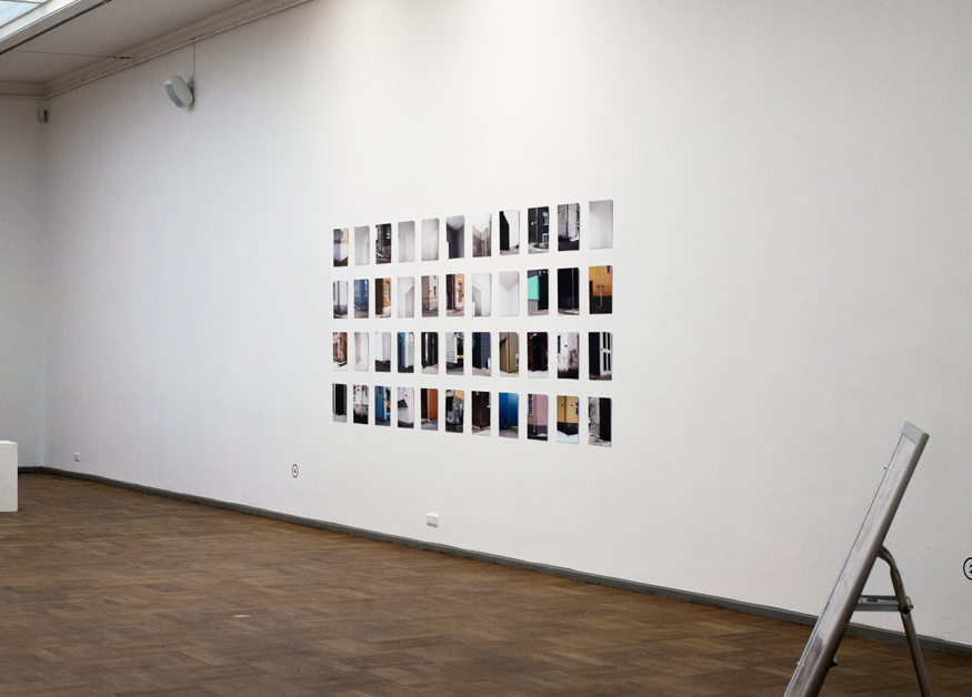 Corners Series by Tarvo Varres, 44 photographs in a grid, installed in Tarllin Art Hall, group exhibition Shadows of a Doubt, curated by Niekolaas Johannes Lekkerkerk, 2013